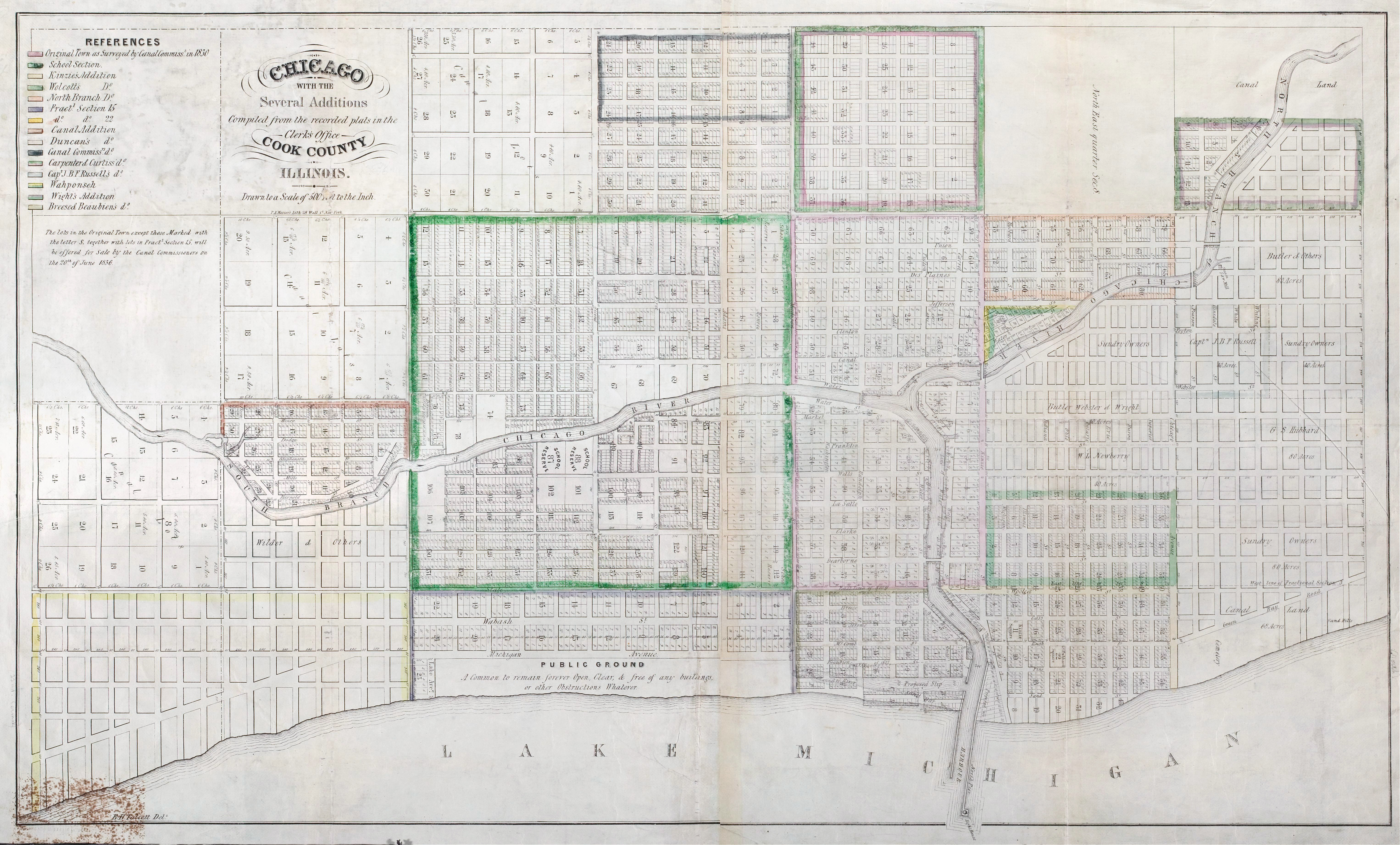 1836 map of Chicago with Additions